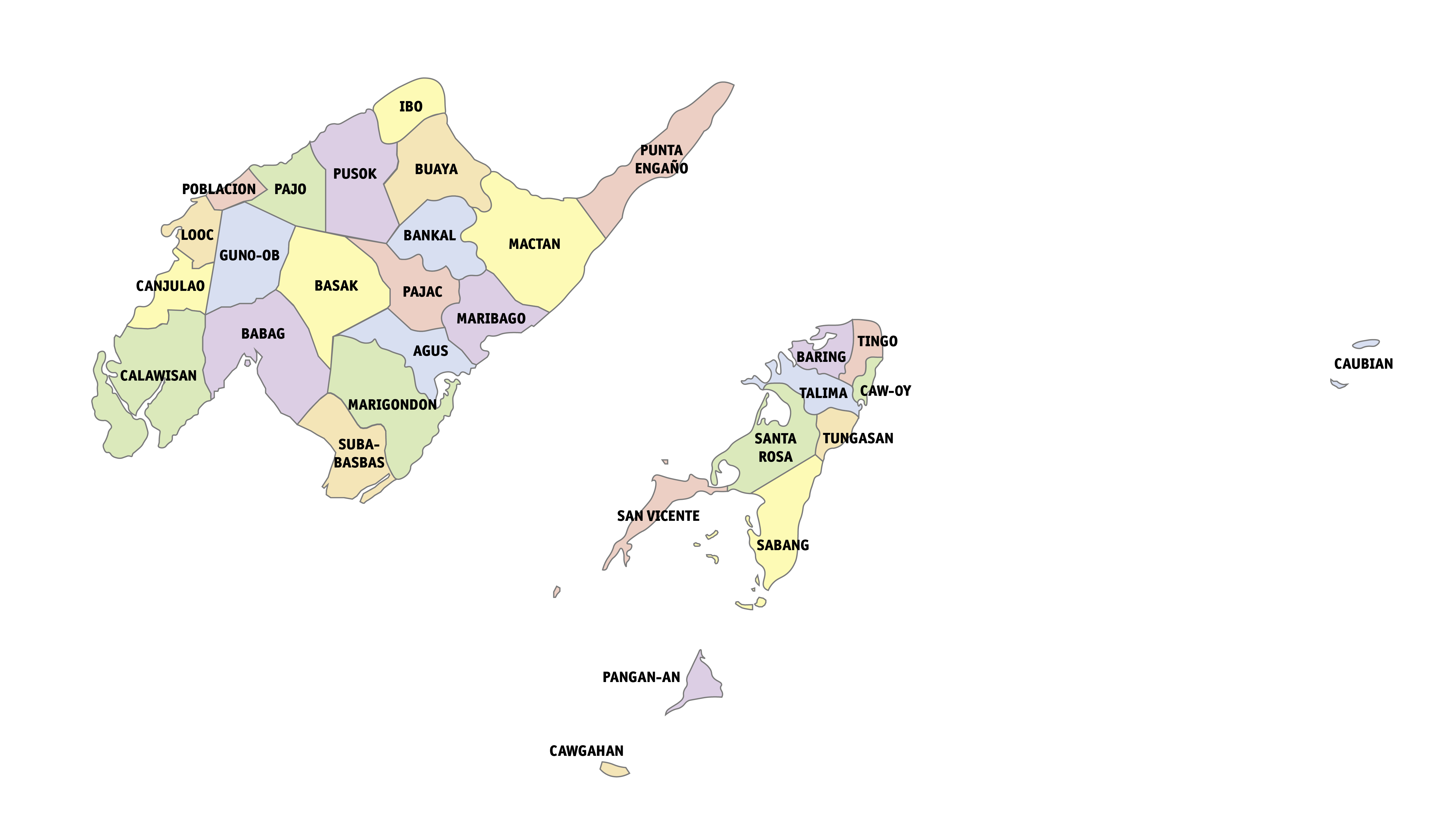 Map showing the barangays of Lapu-lapu City, Cebu